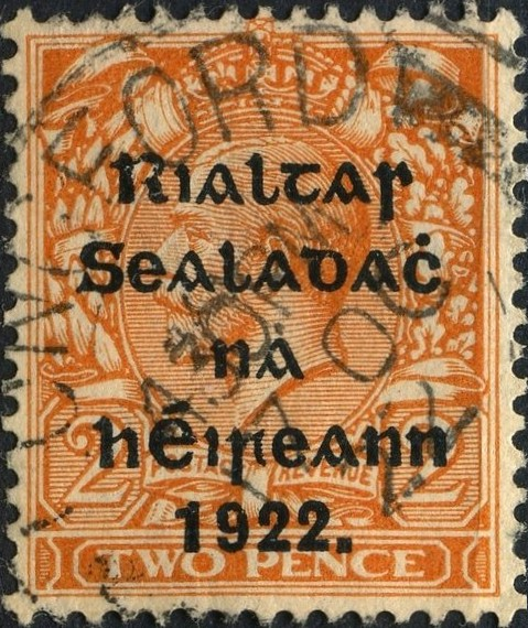 Irish Stamp, 1922 2P Overprint